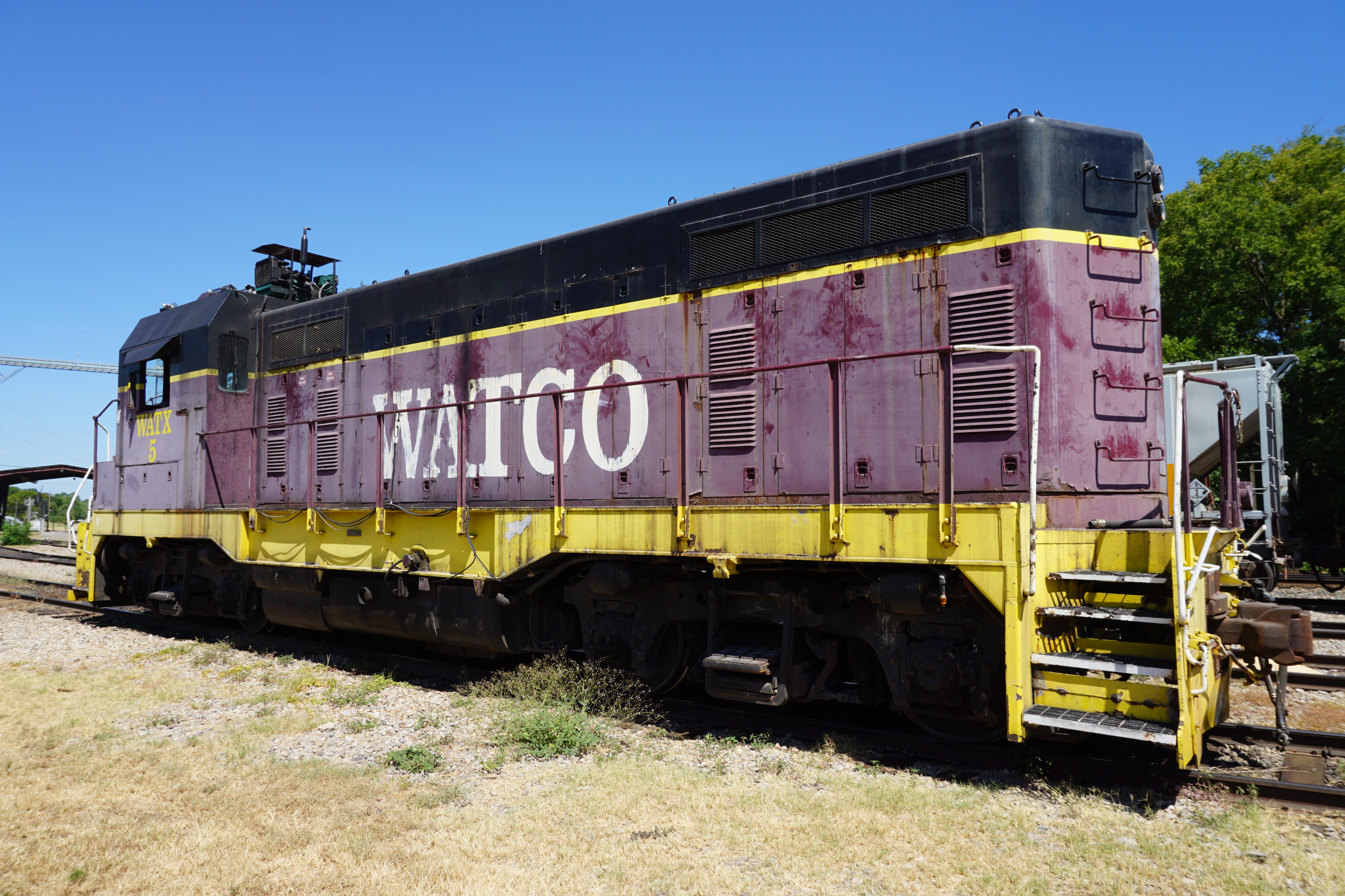 Watco CF7 #5 at the Pilgrim's Pride feed mill in Pittsburg, Texas (United States).